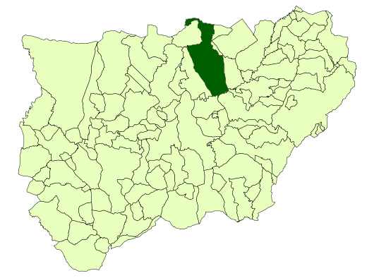 Situation of the municipality of Santisteban del Puerto (Jaén, Spain).